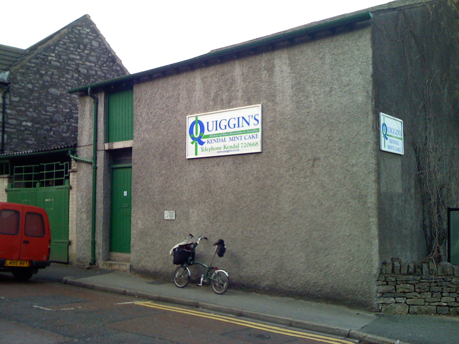 Site of Quiggin's Kendal mint cake factory, in Kendal, North England.